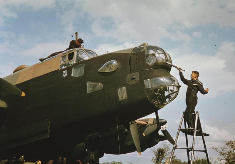 The Royal Air Force in Britain, 1942 A rigger cleans the cockpit perspex while an armourer rods the barrels of the front turrets of a recently received Handley Page Halifax I at Linton-on-Ouse.